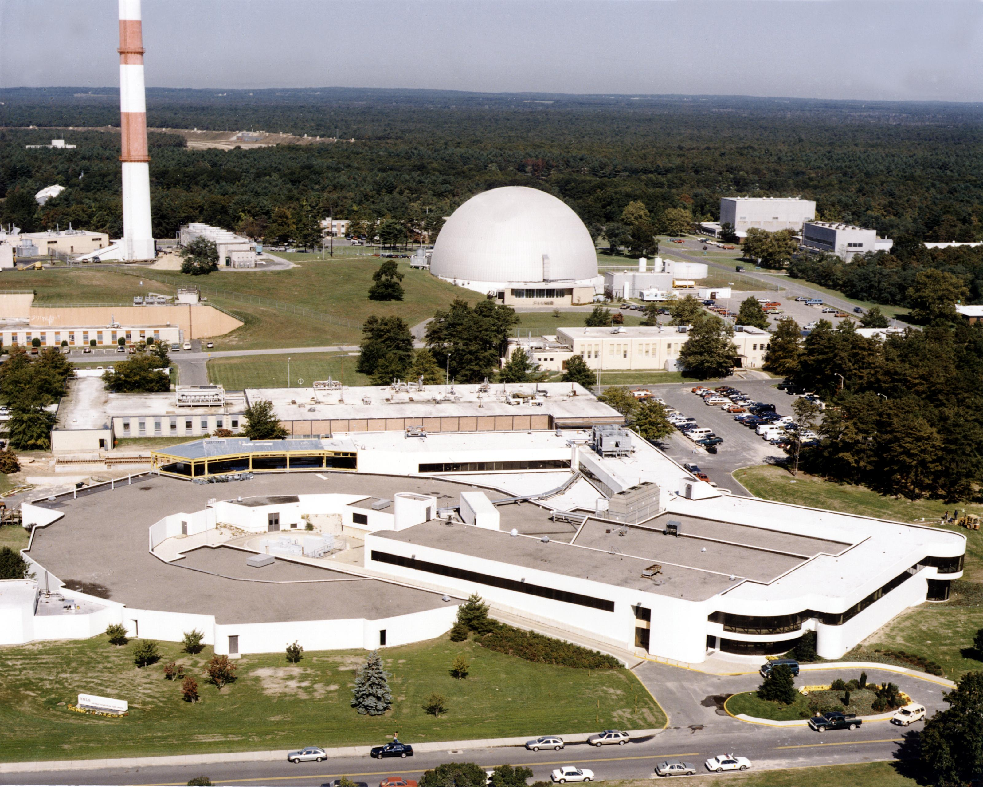 THE NATIONAL SYNCHROTRON LIGHT SOURCE (NSLS) IS BROOKHAVEN NATIONAL LABORATORY'S NEWEST MAJOR FACILITY. THE NSLS IS THE WORLD'S MOST POWERFUL AND VERSATILE SOURCE OF SYNCHROTRON RADIATION. THE NSLS PROVIDES INTENSE BEAMS OFX-RAYS & ULTRAVIOLET LIGHT FOR USE BY SCIENTISTS FROM ALL OVER THE COUNTRY, FOR RESEARCH IN PHYSICS, CHEMISTRY, BIOLOGY AND VARIOUS TECHNOLOGIES. For more information or additional images, please contact 202-586-5251.